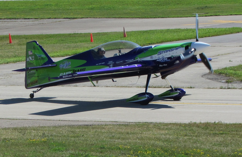 MX2 Taxi